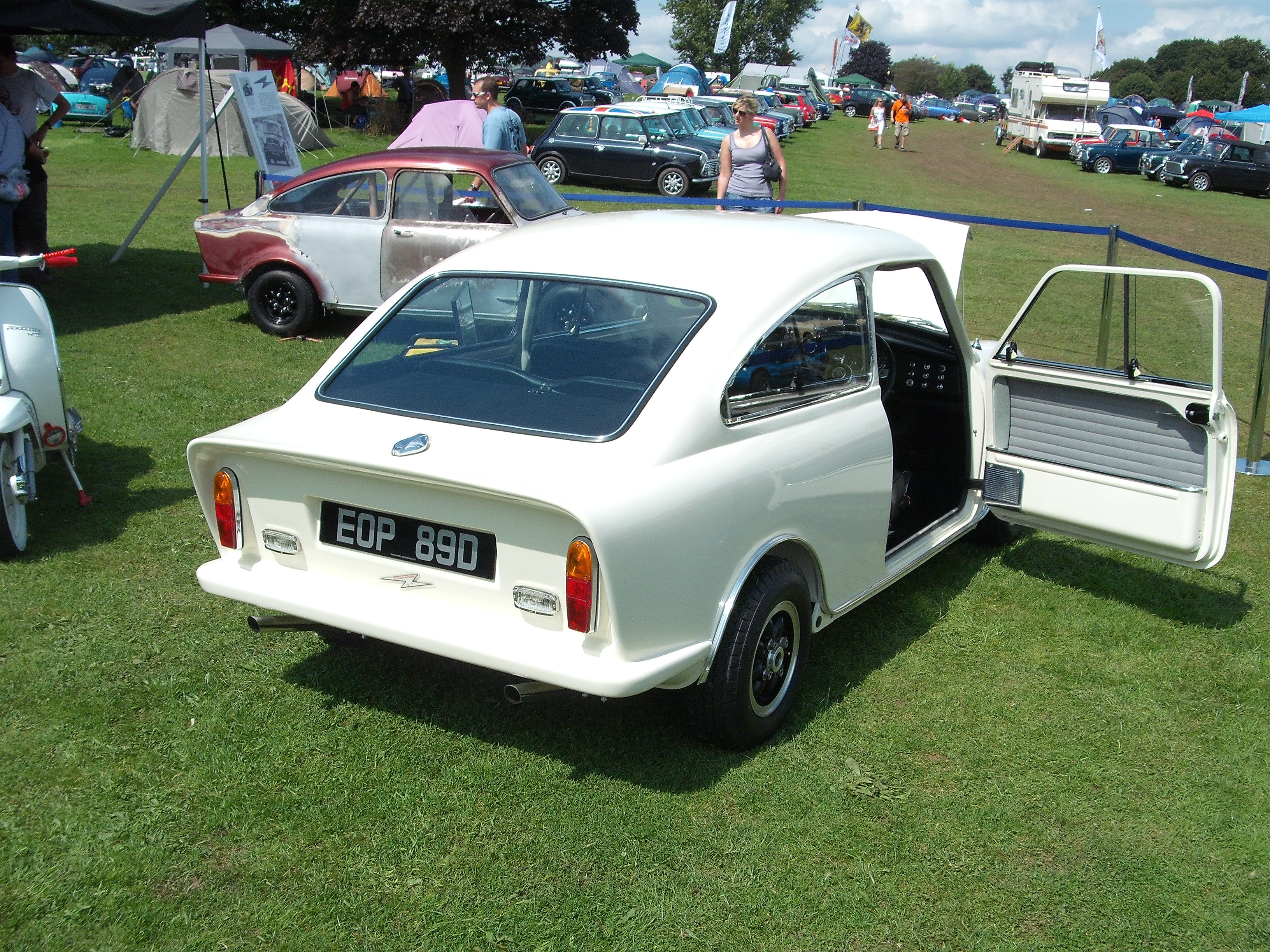 1965 Broadspeed GT from the rear, taken at the 2009 International Mini Meet/Mini 50